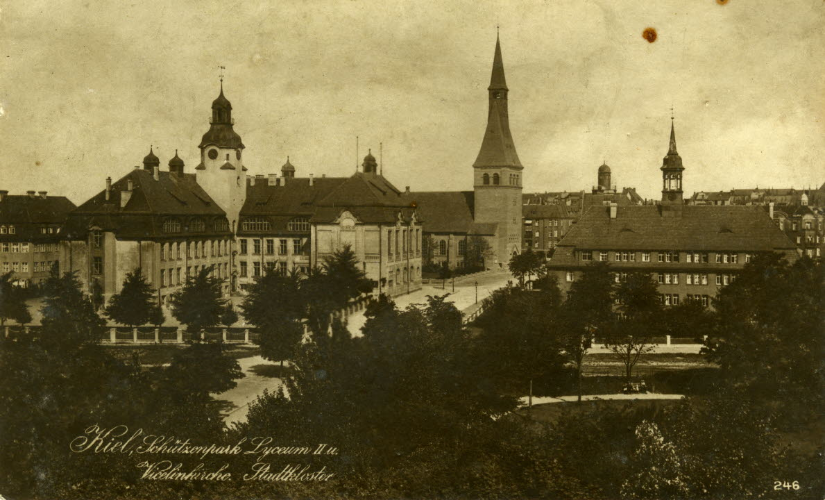 Kiel 1910: View from the Schützenpark to Harmsstraße with the Secondary School for Girls II (later Käthe-Kollwitz-School), Vicelin Church and Stadtkloster (Photographer: Koch, Karl (1875-1924))